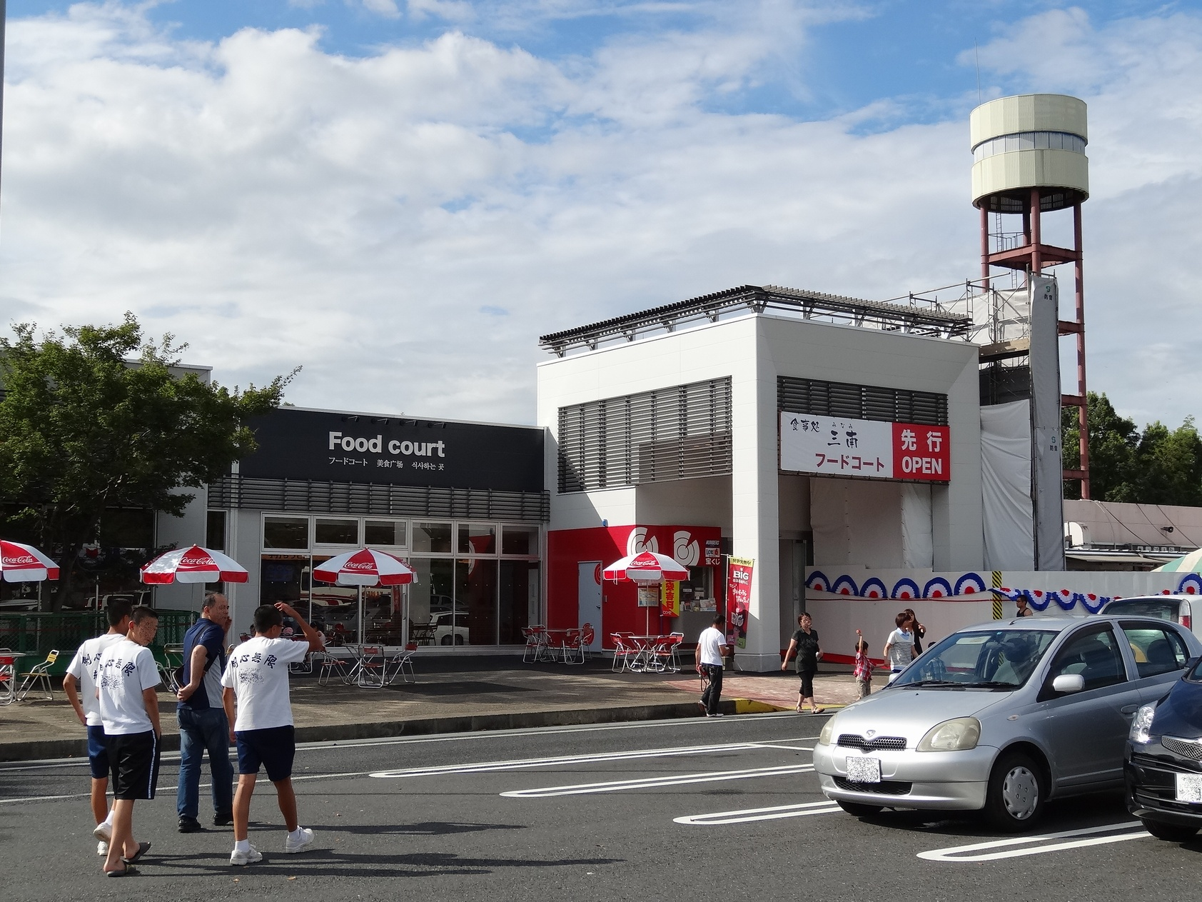 Miyahara Rest Area Western side (Kyushu Expressway - Hikawa Town, Kumamoto, Japan)